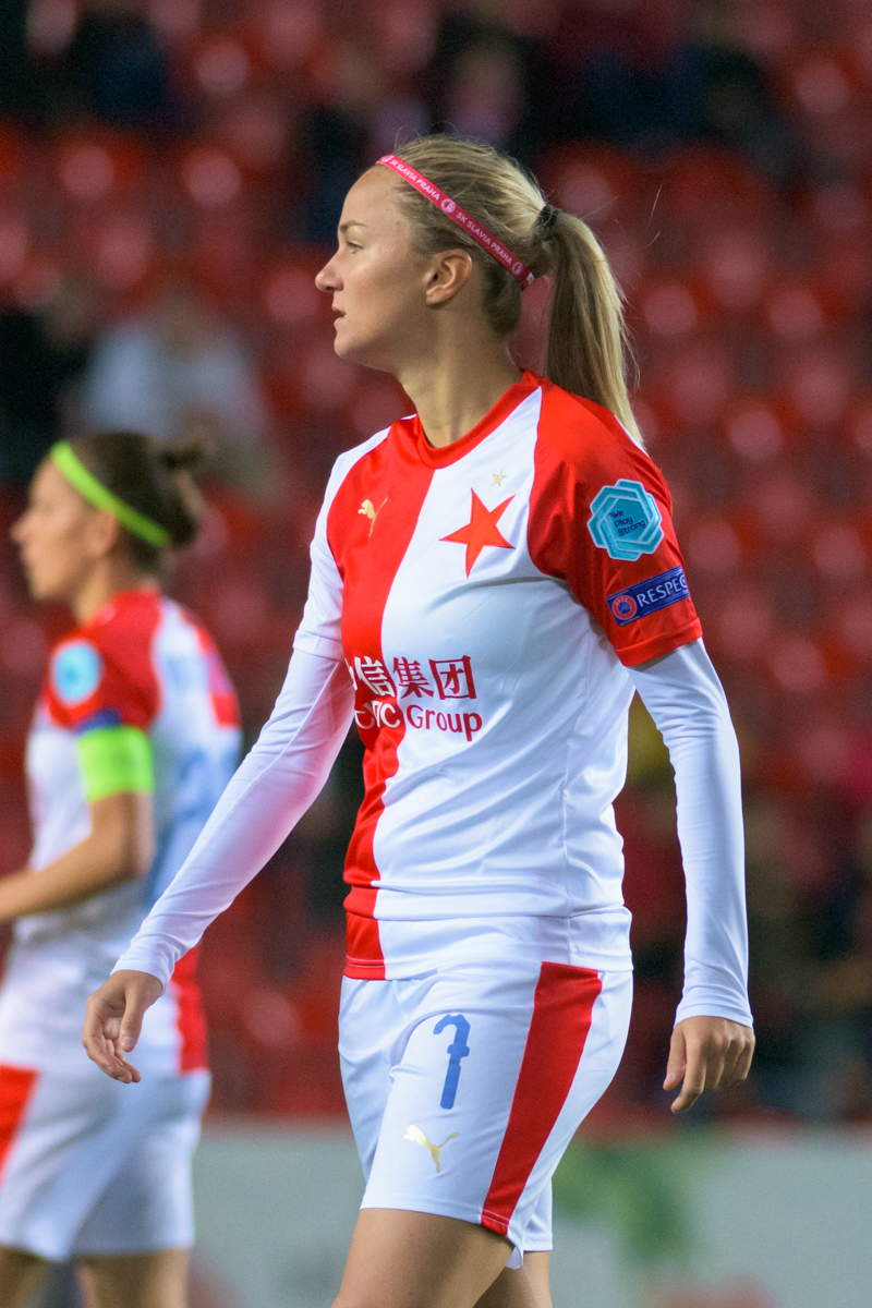 Simona Necidová during the match vs Arsenal WFC, October 2019